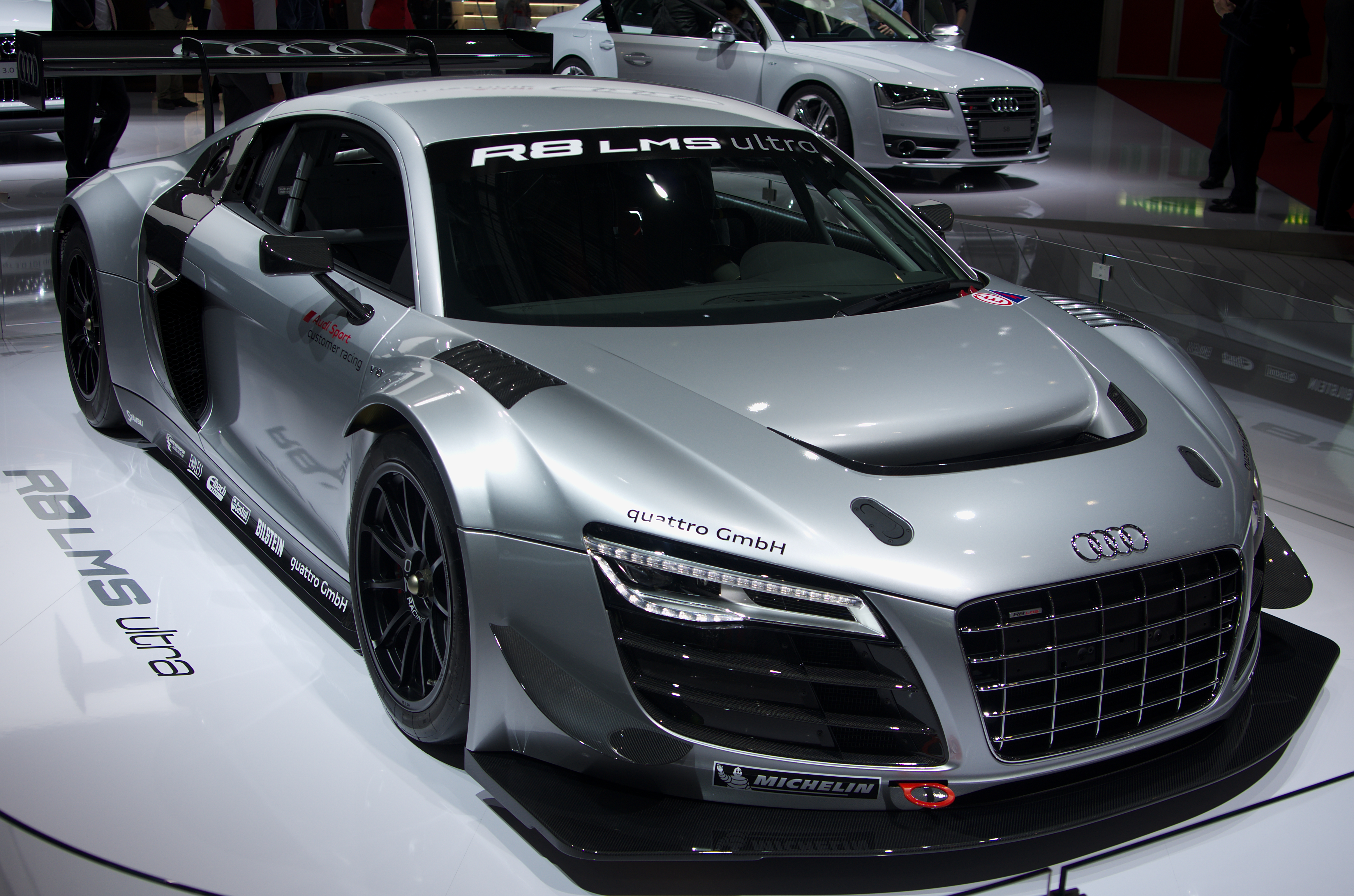 Geneva MotorShow 2013 - Audi R8 LMS ultra front left